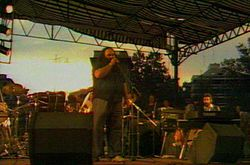 The Italian progressive rock group Banco del Mutuo Soccorso playing live in 1979.